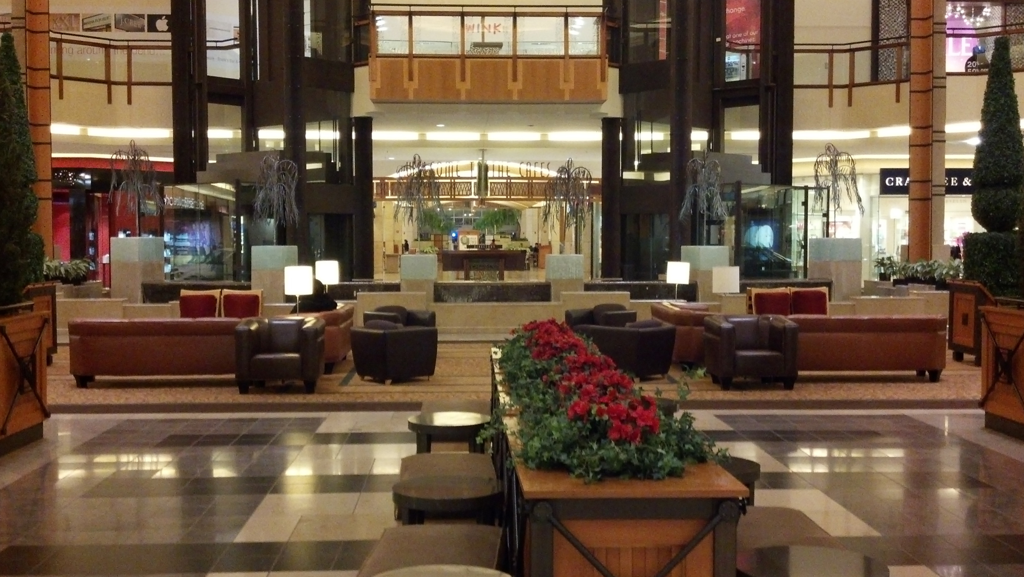 View of the center court at The Shops at Willow Bend in Plano, Texas after the winter decorations have been removed.